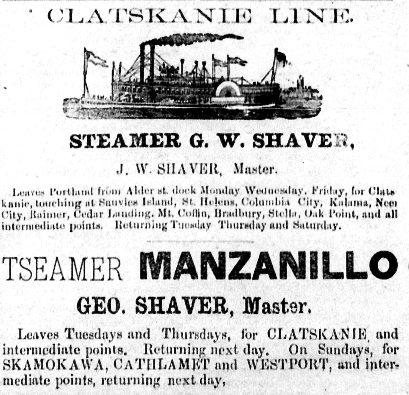 Advertisement for the Clatskanie Line (Shaver Transportation Company), including steamers Geo. W. Shaver, and Manzanillo. There are at least two misspellings in the text.